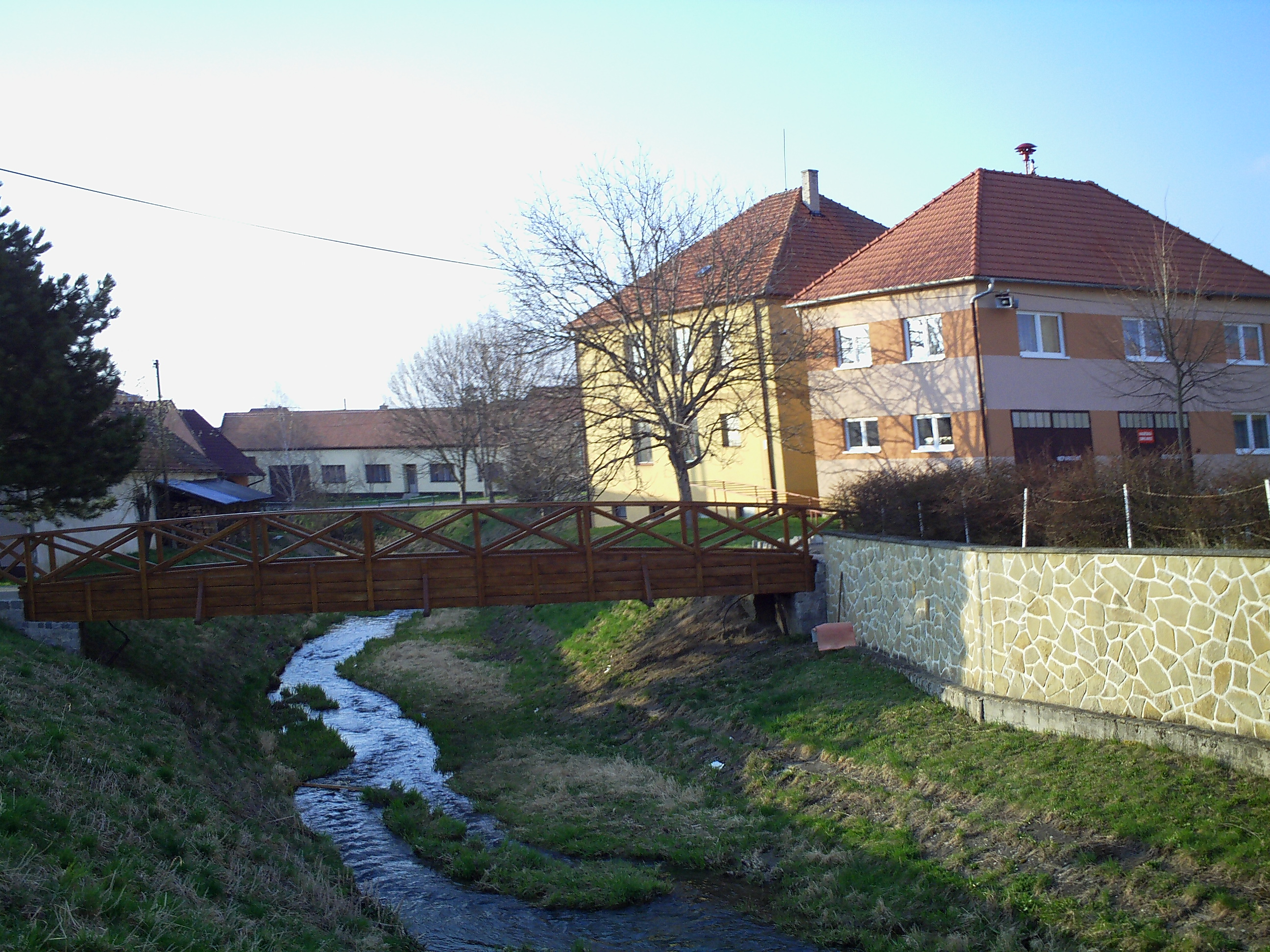 Suchá Loz in Uherské Hradiště District, Czech Republic. Bridge and firehouse.